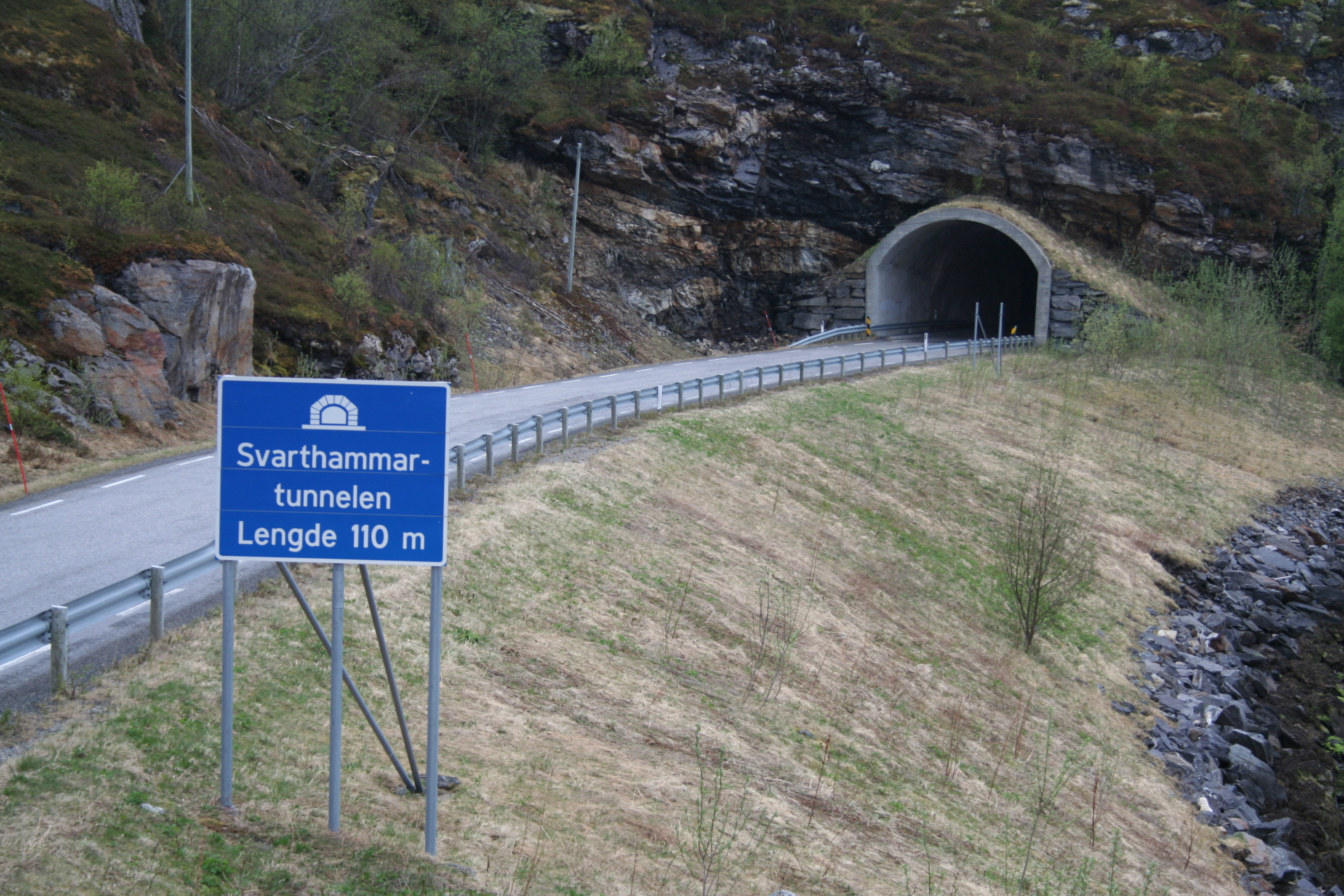 The entrance of Svarthammartunnelen on Andørja, Troms County, Norway. The length is 110 m.